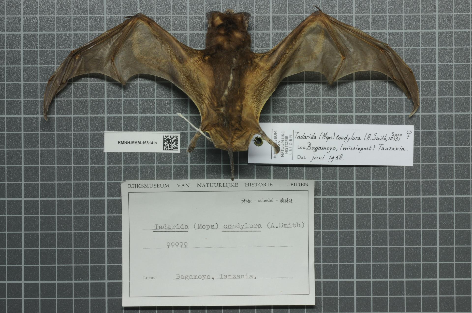 Mops condylurus